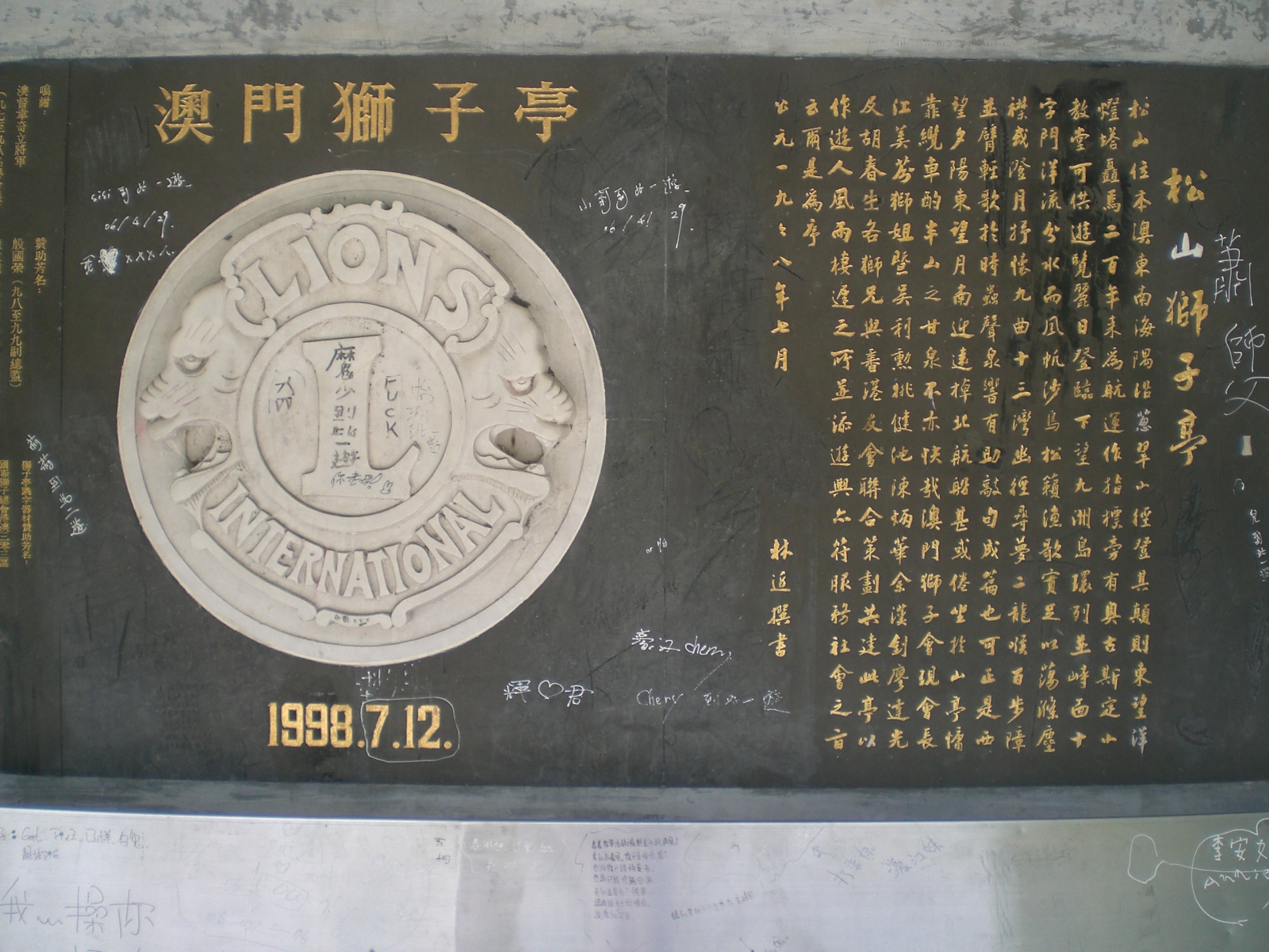 澳門zh:國際獅子會, Lion Club International, 東望洋山, 松山, Guia Hill, Macau. Photo author= Mo707